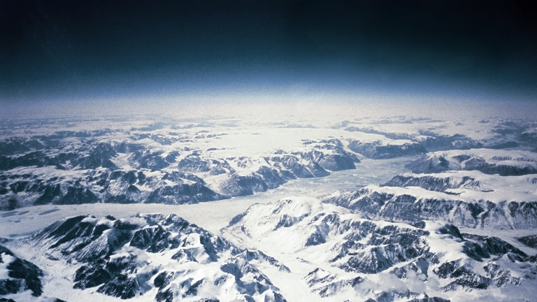 Photo of the south-east coast of greenland taken with a Canon Ixus II